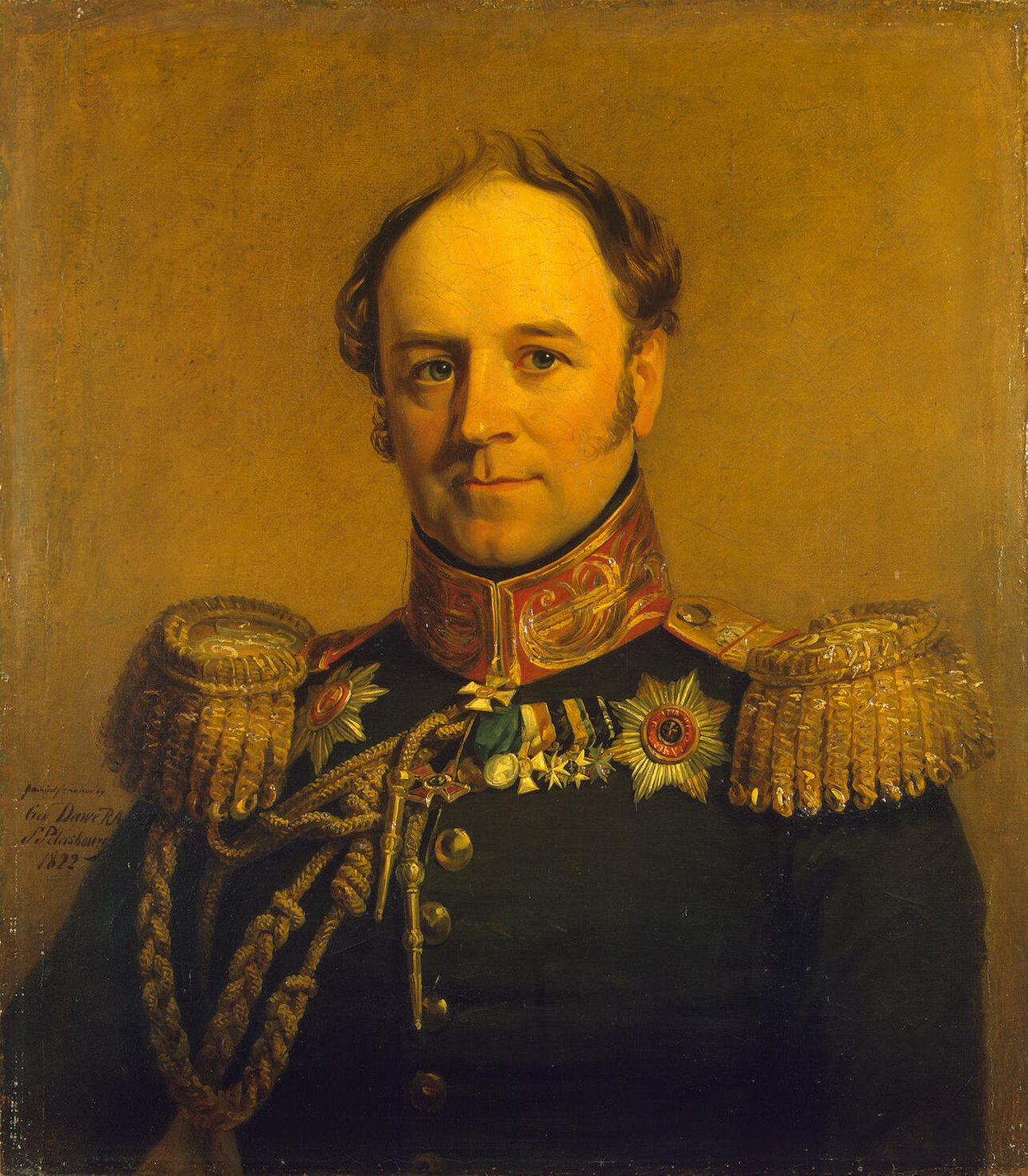 Portrait of Alexander von Benckendorff (1781/1783-1844) (1st), a Russian Lieutenant General